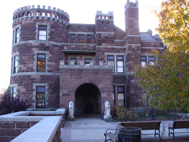 I took this photo of Lambert Castle myself on November 23, 2005.